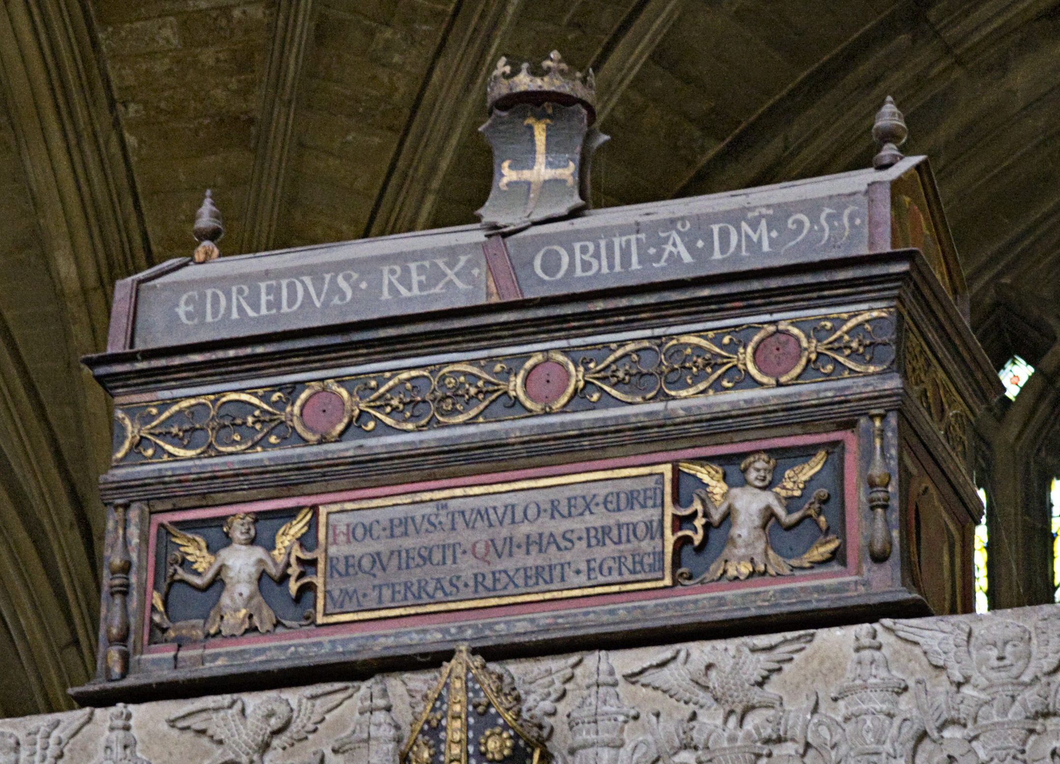 Mortuary chest from Winchester Cathedral, Winchester, England. This is one of six mortuary chests near the altar in the Cathedral, this one purports to contain the bones of King Edred d. 955, along with others. See here for more details.